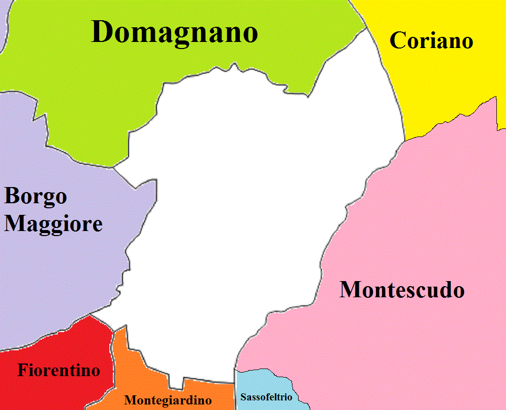 Map of Faetano (San Marino)